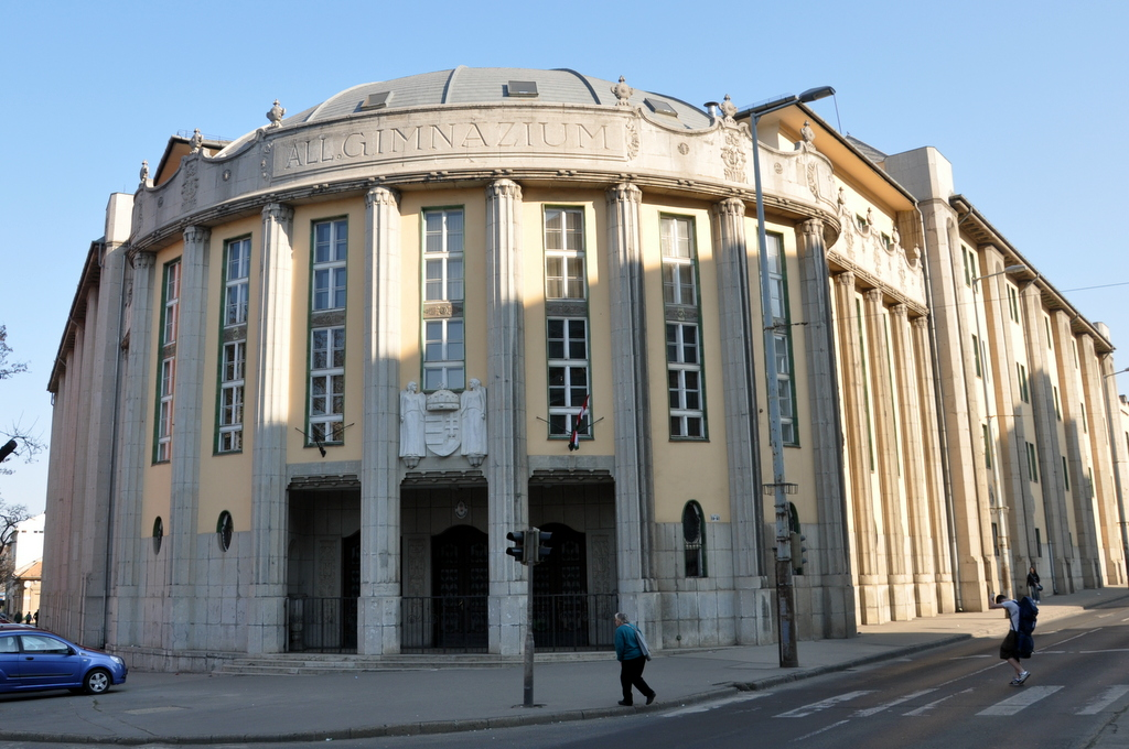 Szent László High School in Budapest District X This is a photo of a monument in Hungary, Identifier: 1084